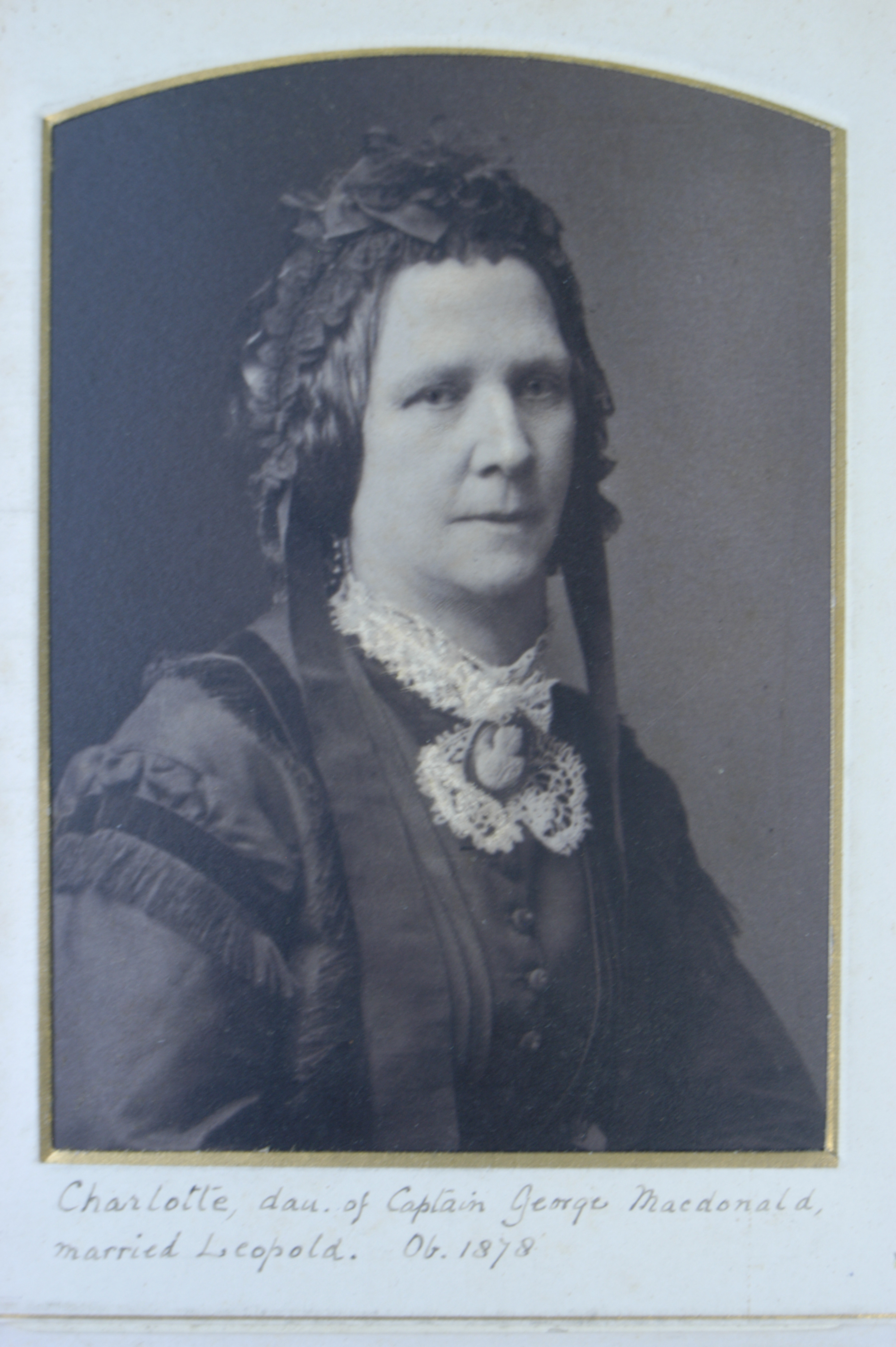 My photo (R. de SalisRodolph (talk) 09:27, 4 July 2014 (UTC)) of a photo of Charlotte MacDonald (d.1878), wife to Leopold F. D. Fane De Salis (1816-1898).